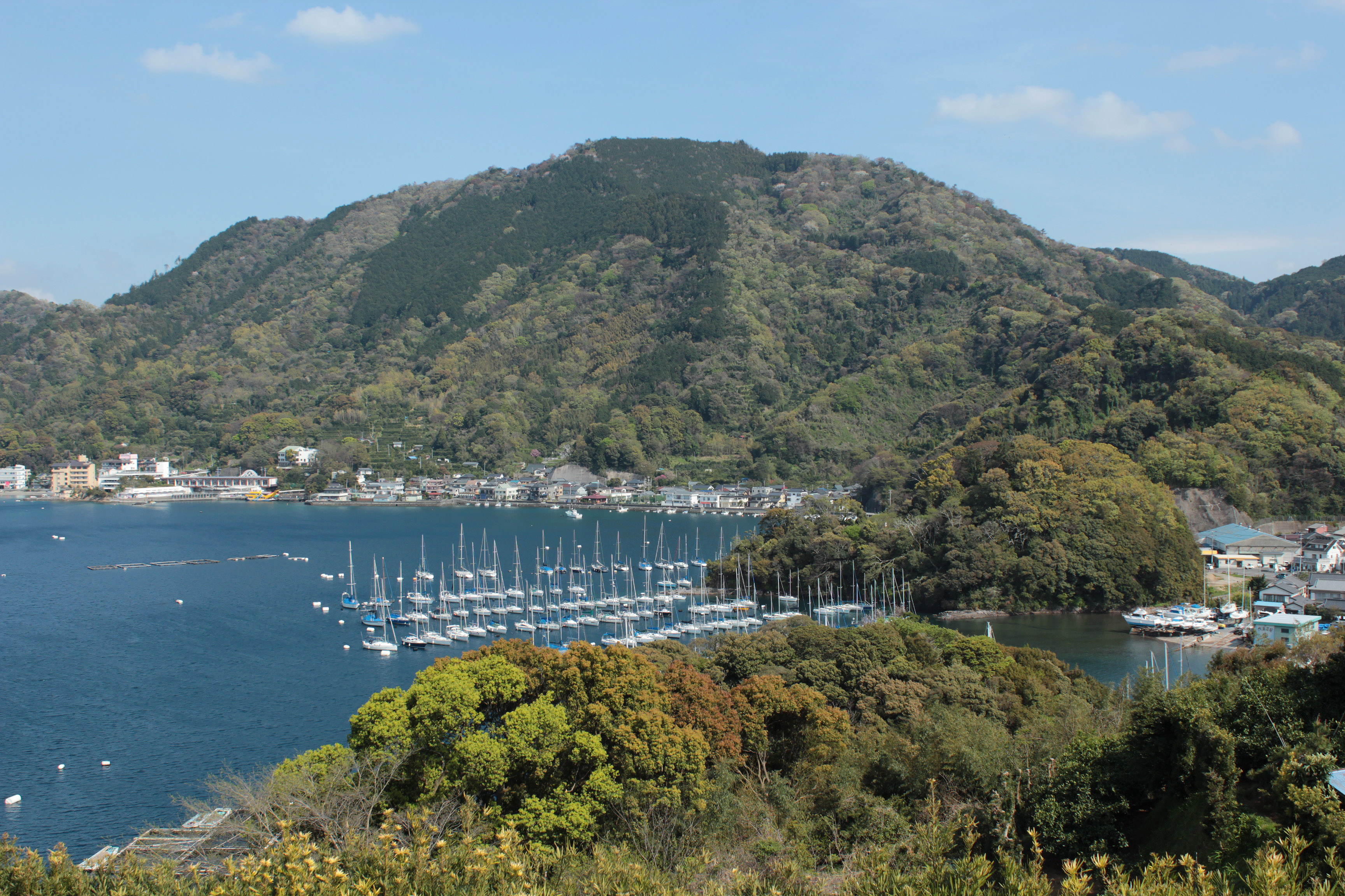 Mount Hottanjō seen from the WNW in Numazu, Shizuoka Prefecture, Japan.